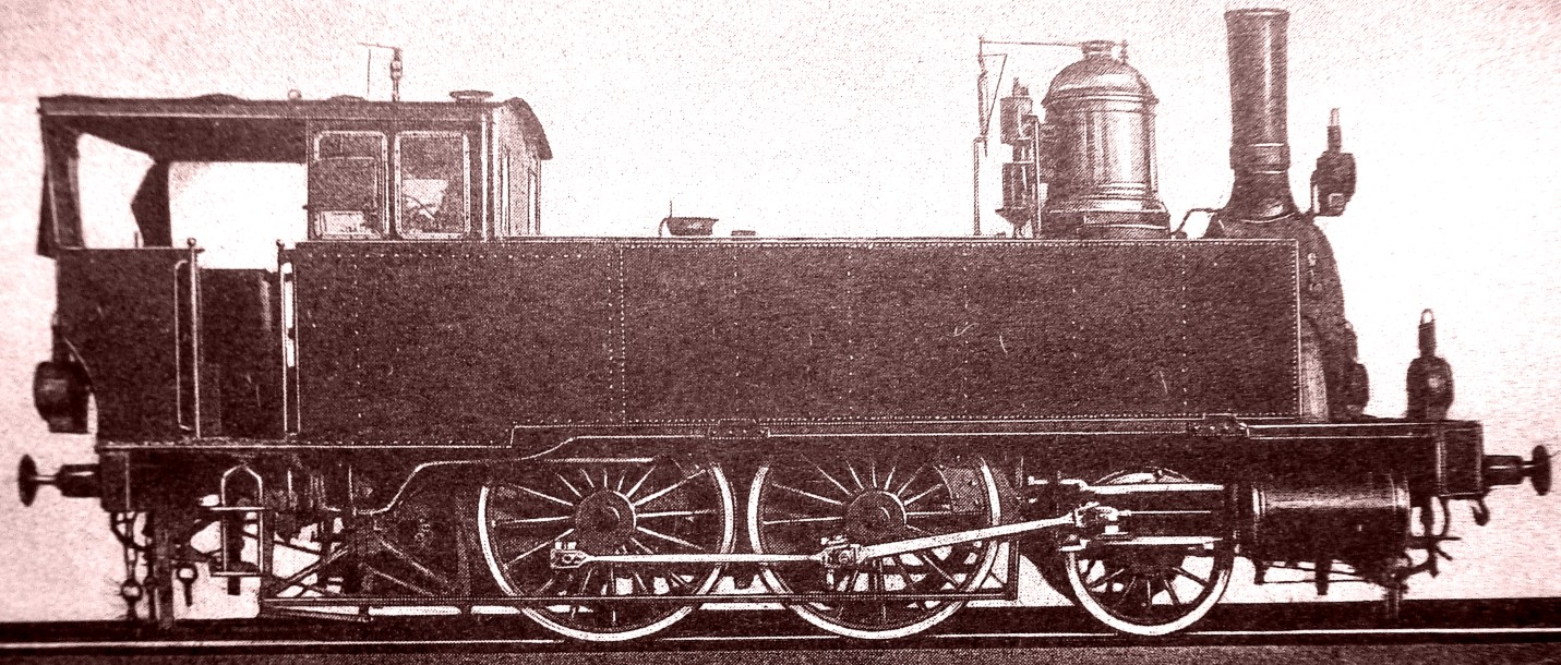 Russian tank loc Yer'-Ya series